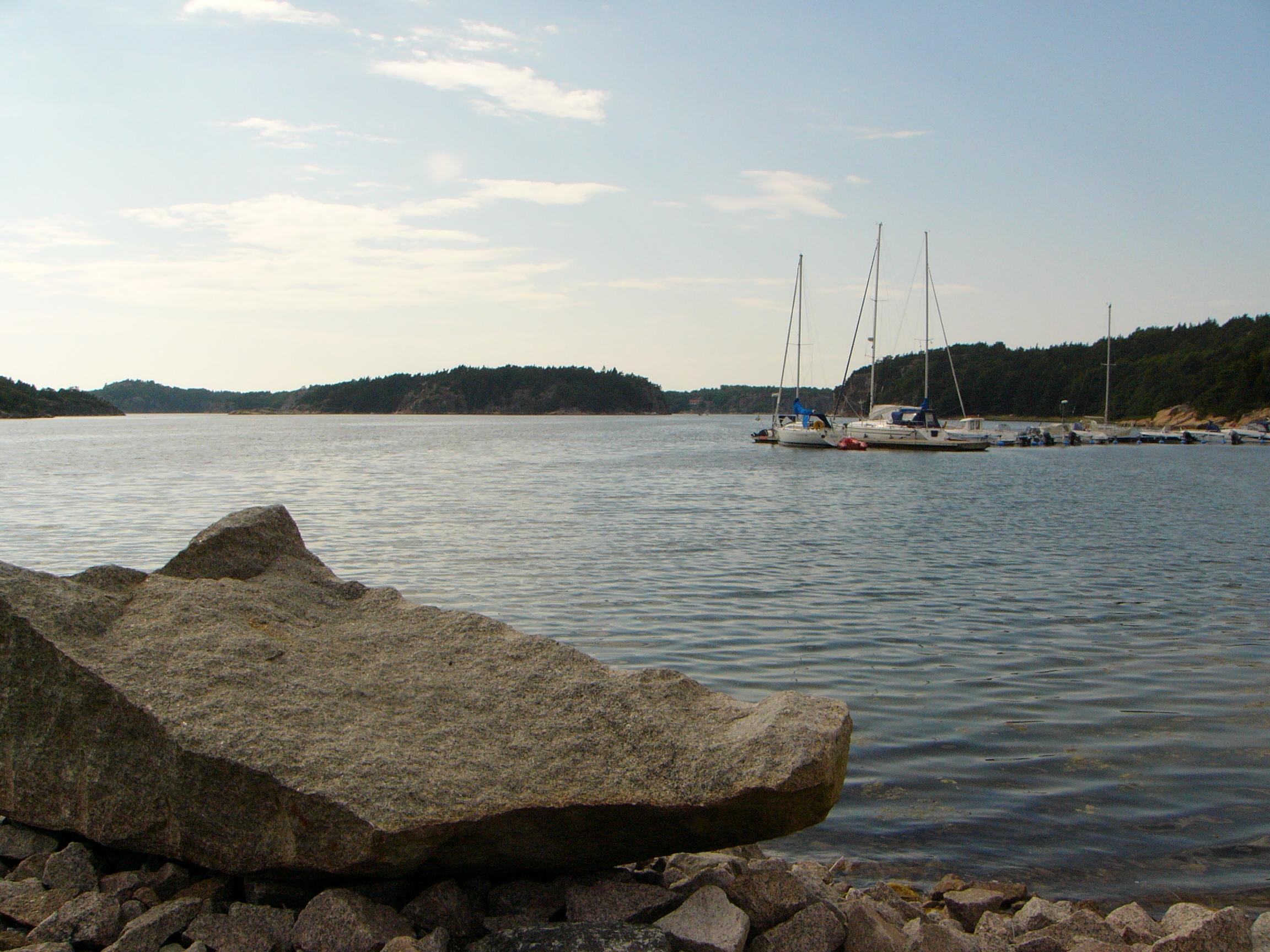 Sannäsfjorden, Tanum municipality, Sweden